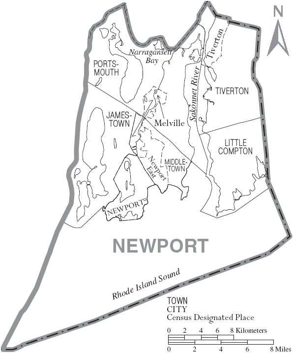 Map of Newport County, Rhode Island, United States with township and municipal boundaries